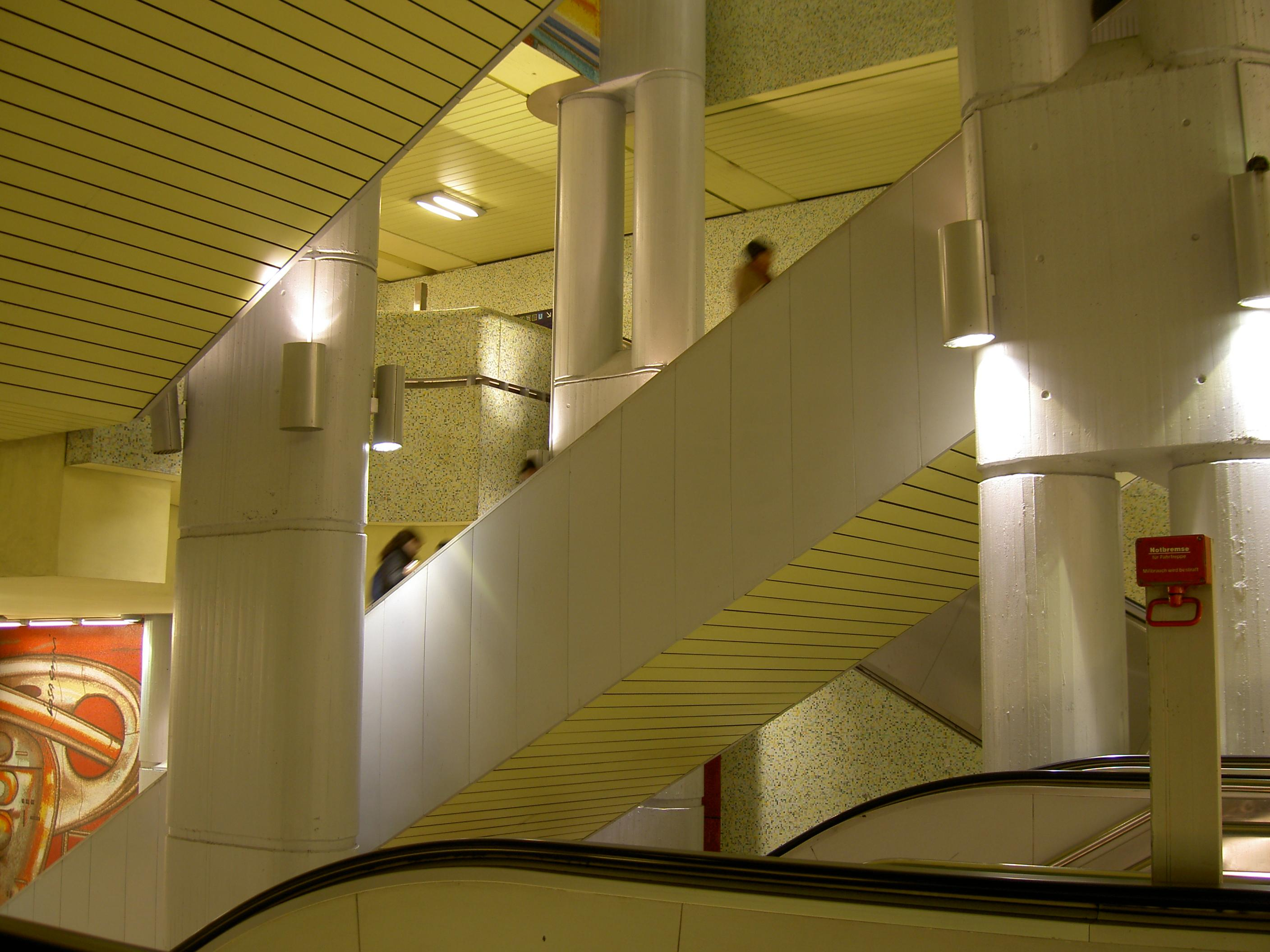 stairs in underground station Kröpcke in Hannover, Germany